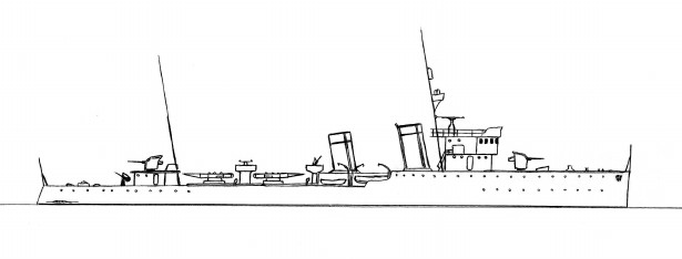 Destroyer Sauro, Italy